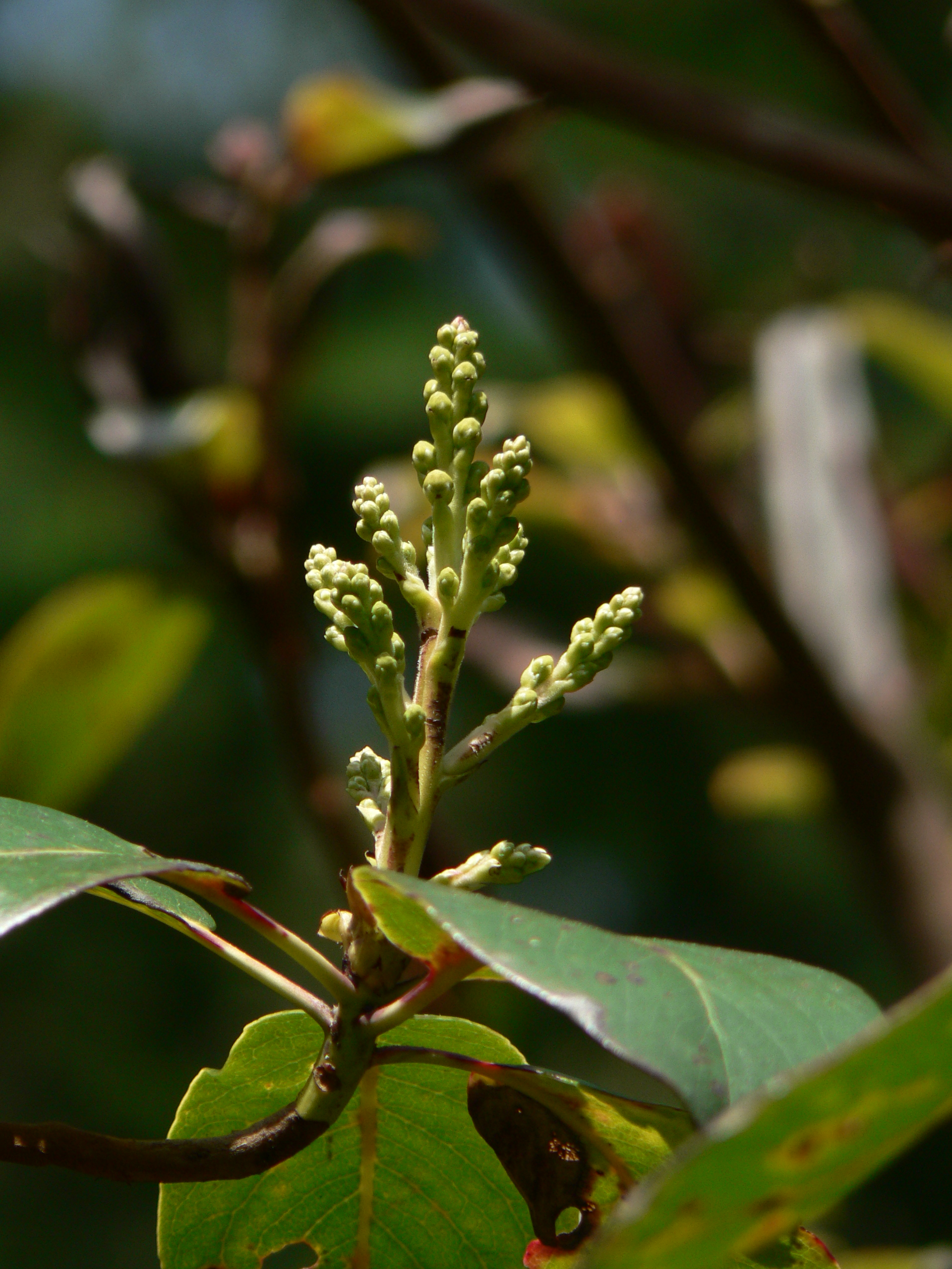 Pacific Madrone